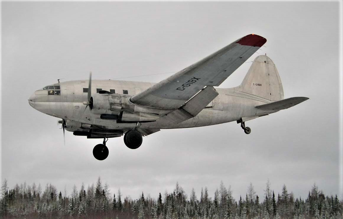 First Nations Transportation Curtiss-Wright C-46 Commando